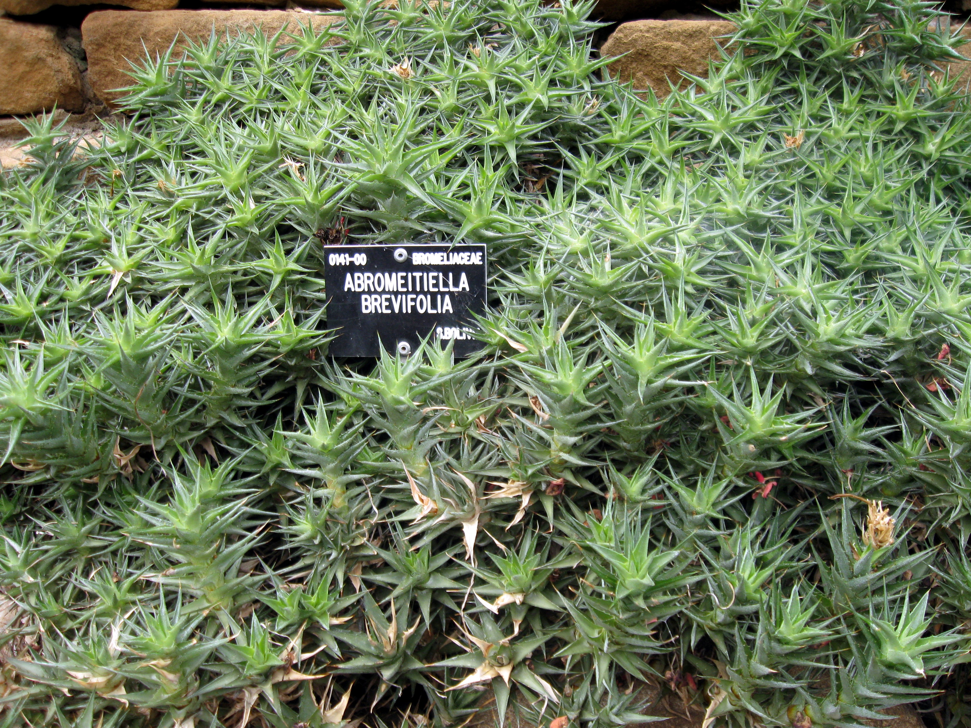 Abromeitiella brevifolia photographed at Durham University Botanic Garden on 3 June 2009.